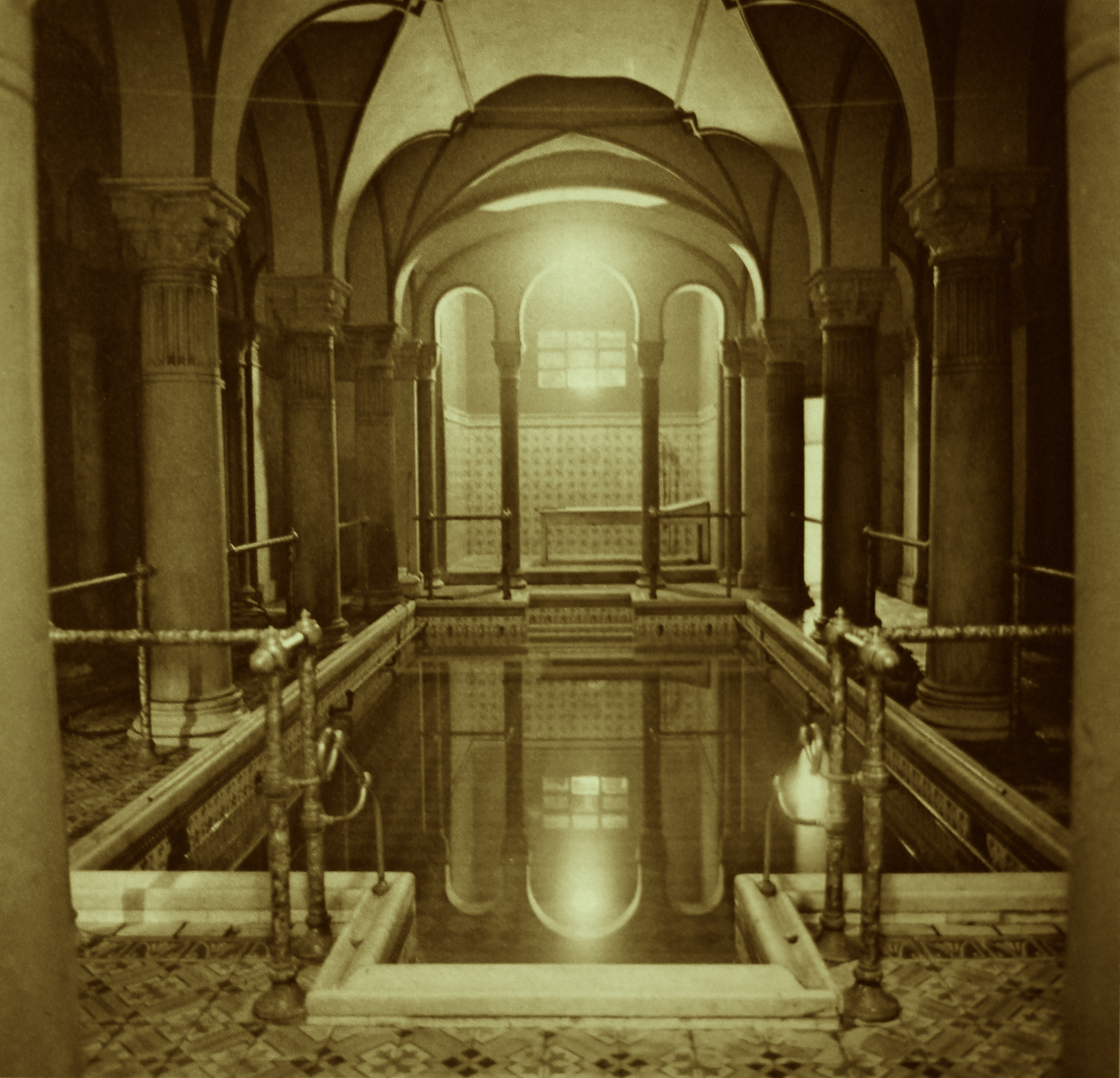 Adolf Endl, Anton Honus, Adalbert Swoboda: Pool in the Central Bathhouse 1889; Old advertising brochure of the Central-Bad (c. 1910); digital version